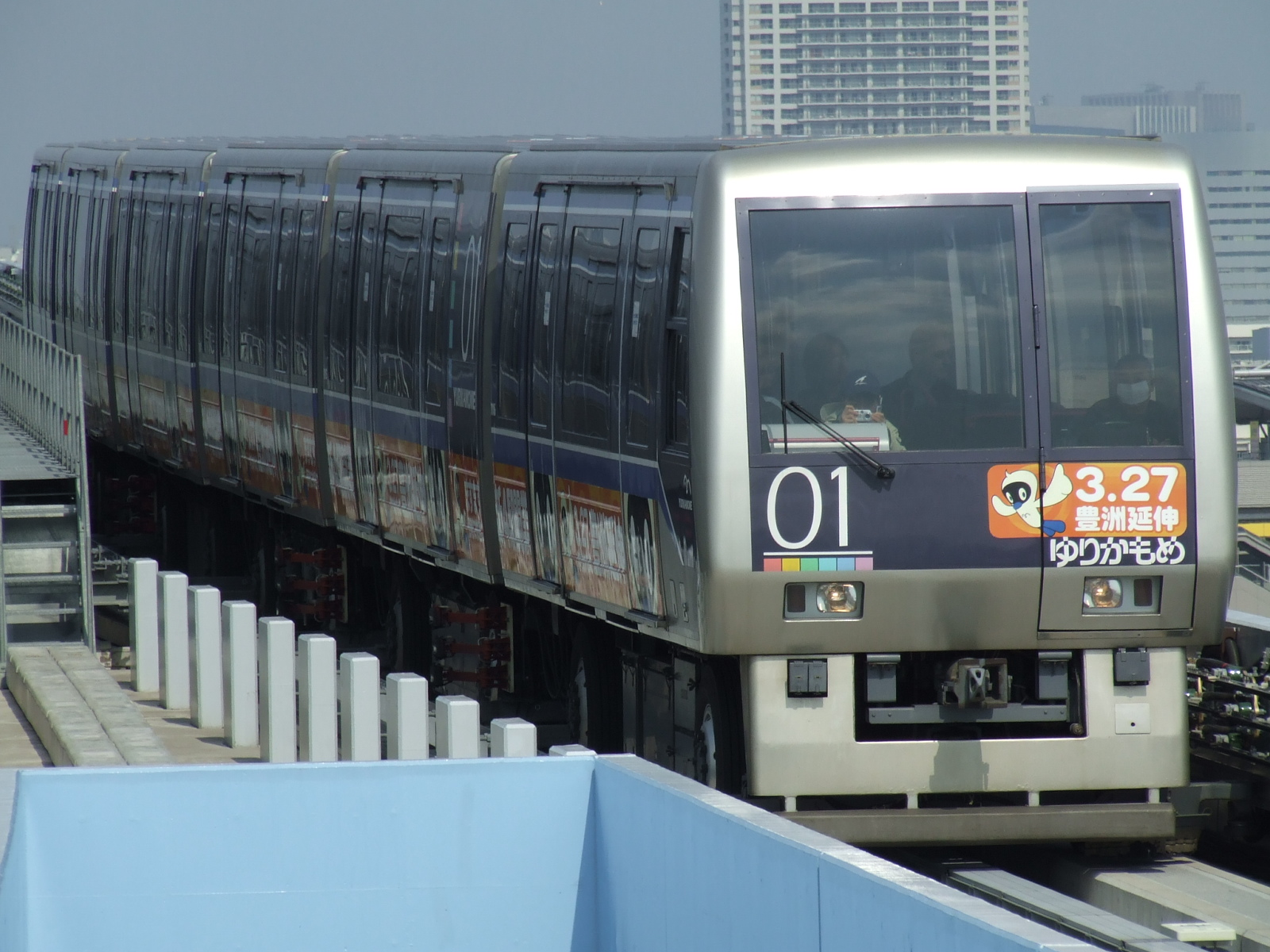 Model 7000 First Model, Yurikamome, Japan